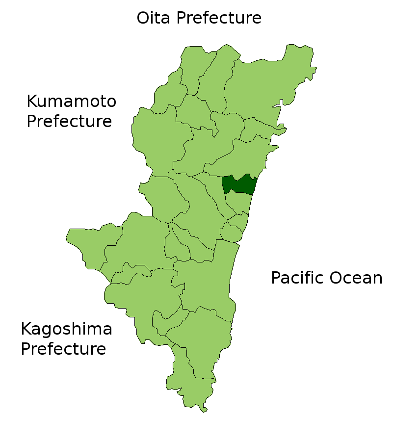 Location Map of Tsuno in Miyazaki Prefecture, Japan